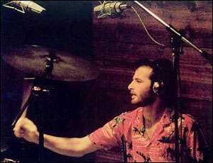 recording studio